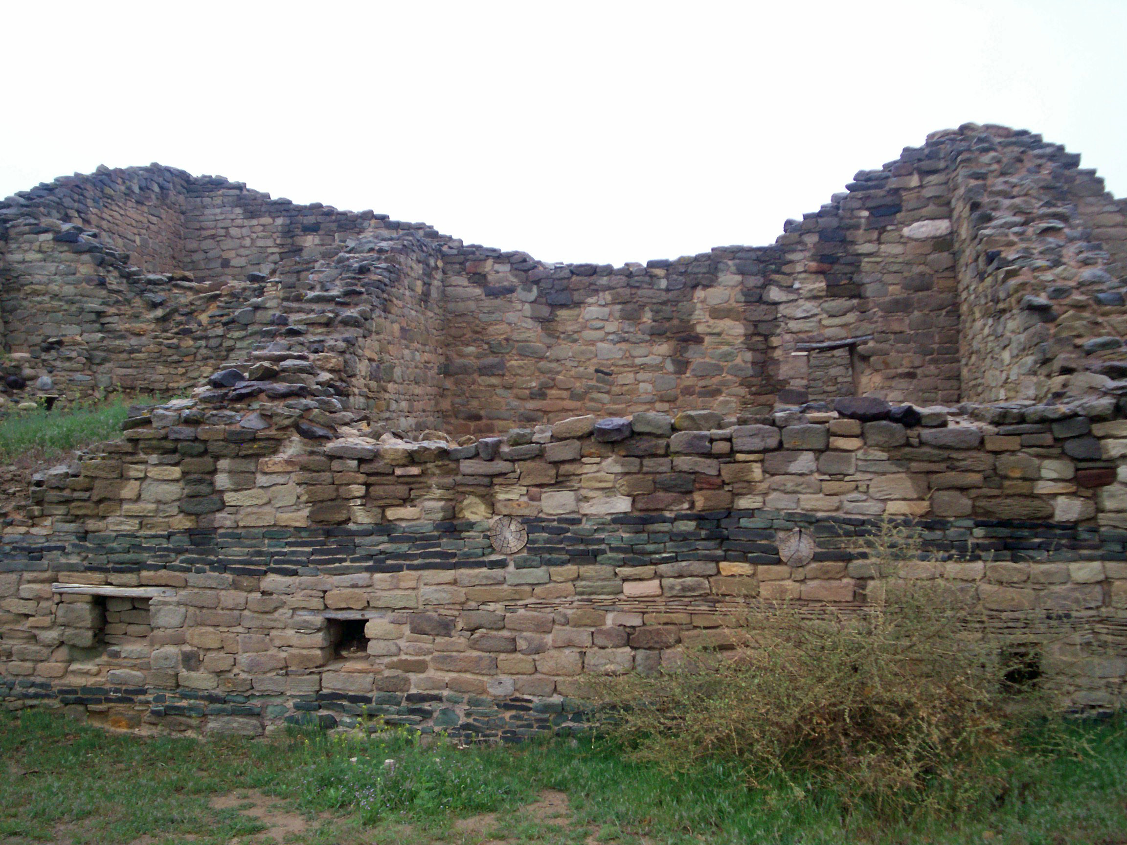 Aztec Ruins National Monument, New Mexico by David Jolley 2007 in New Mexico. This picture I took myself and it is not the work of ANY OTHER Source. Please check metadata for more information on picture information.-Staplegunther